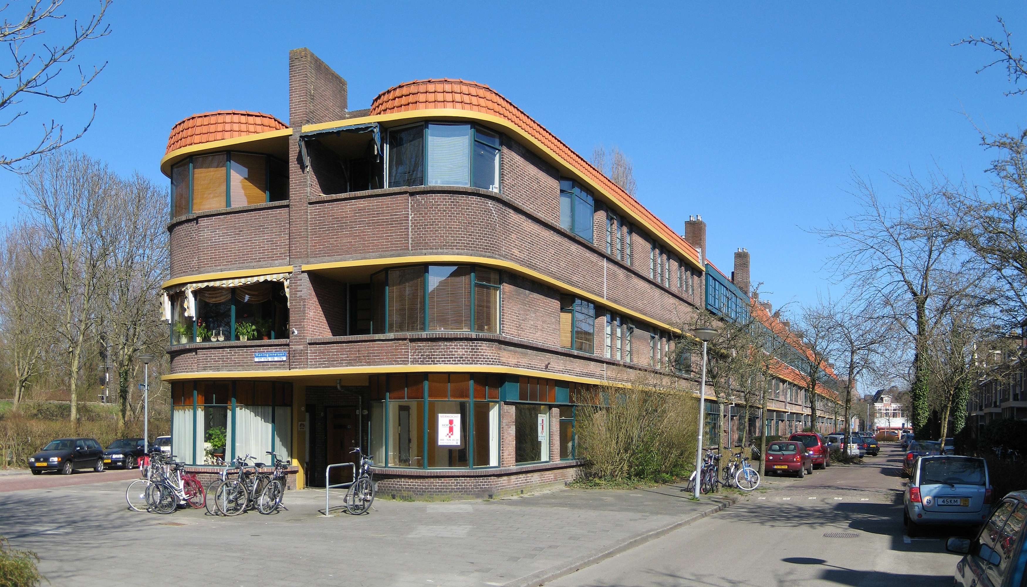 The Pythagorascomplex (1930) in the Dutch city of Groningen.